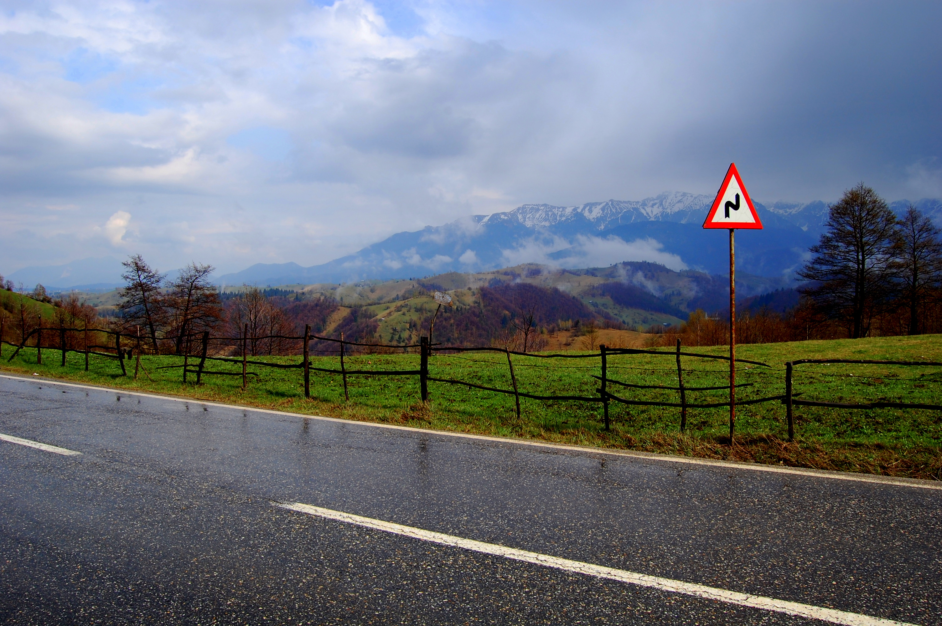 Rucăr-Bran passage, shot in Moieciu, Braşov county, Transilvania, România